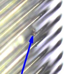 Optical image of wire bonds shorted